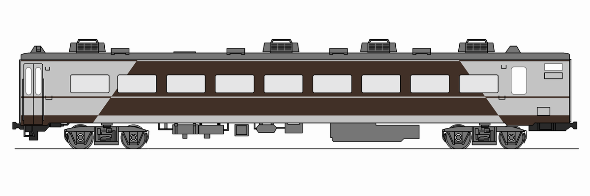 The side view of the Passenger Car series 14 "Miyabi" of JNR.